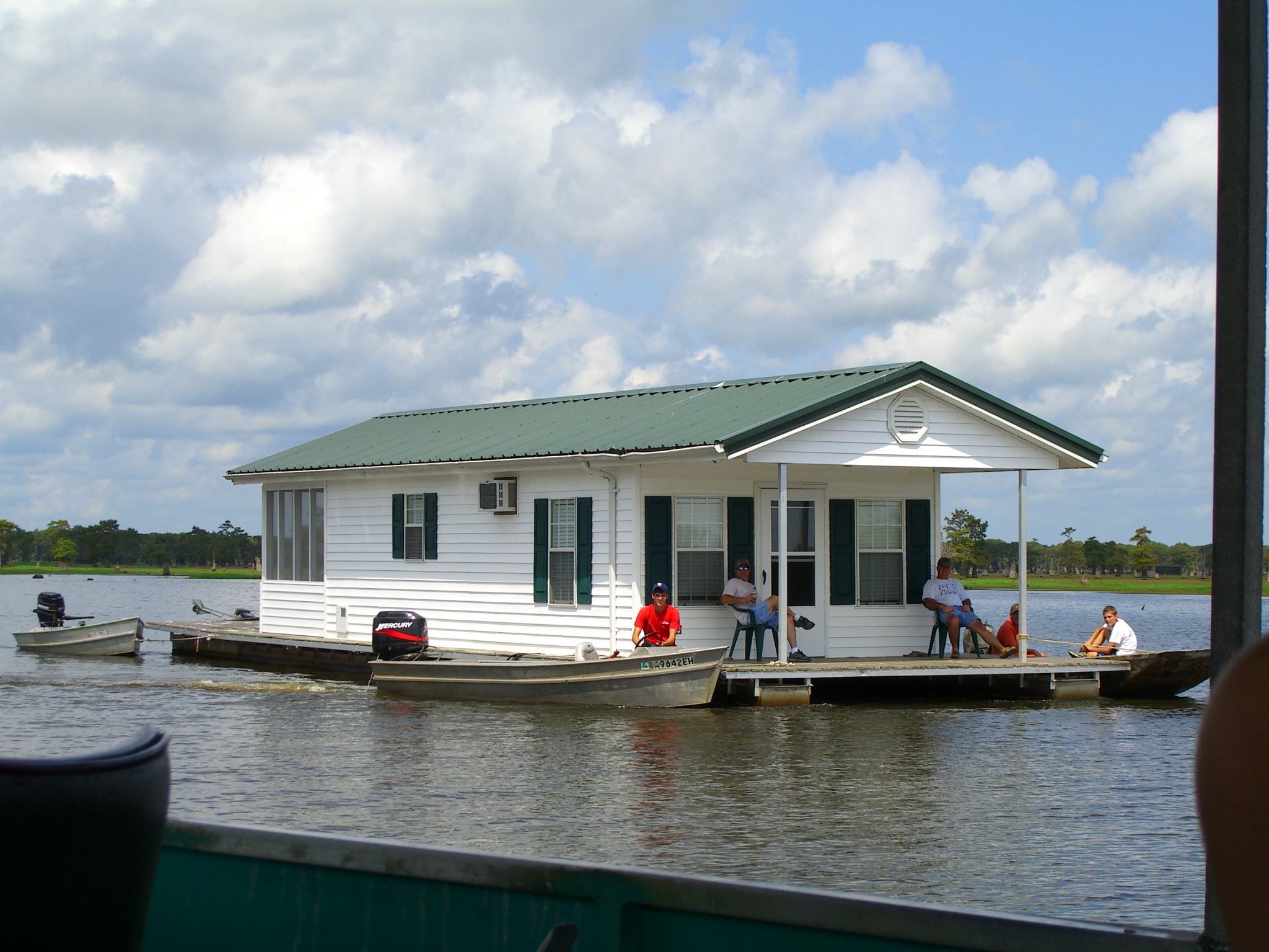 Literally a "house"boat on Lake Bigeaux near Henderson, LA. Picture taken by Pseudotriton in Aug 2006.